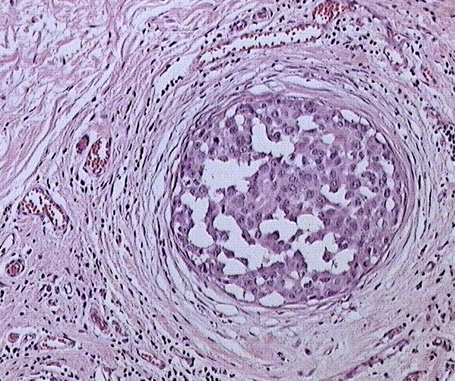 Ductal carcinoma in sity (DCIS)